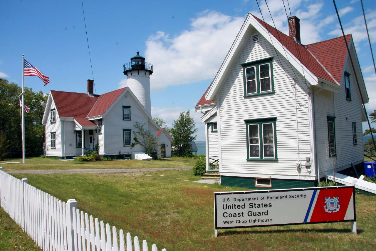 West Chop Lighthouse, Martha's Vineyard, Massachusetts, USA.